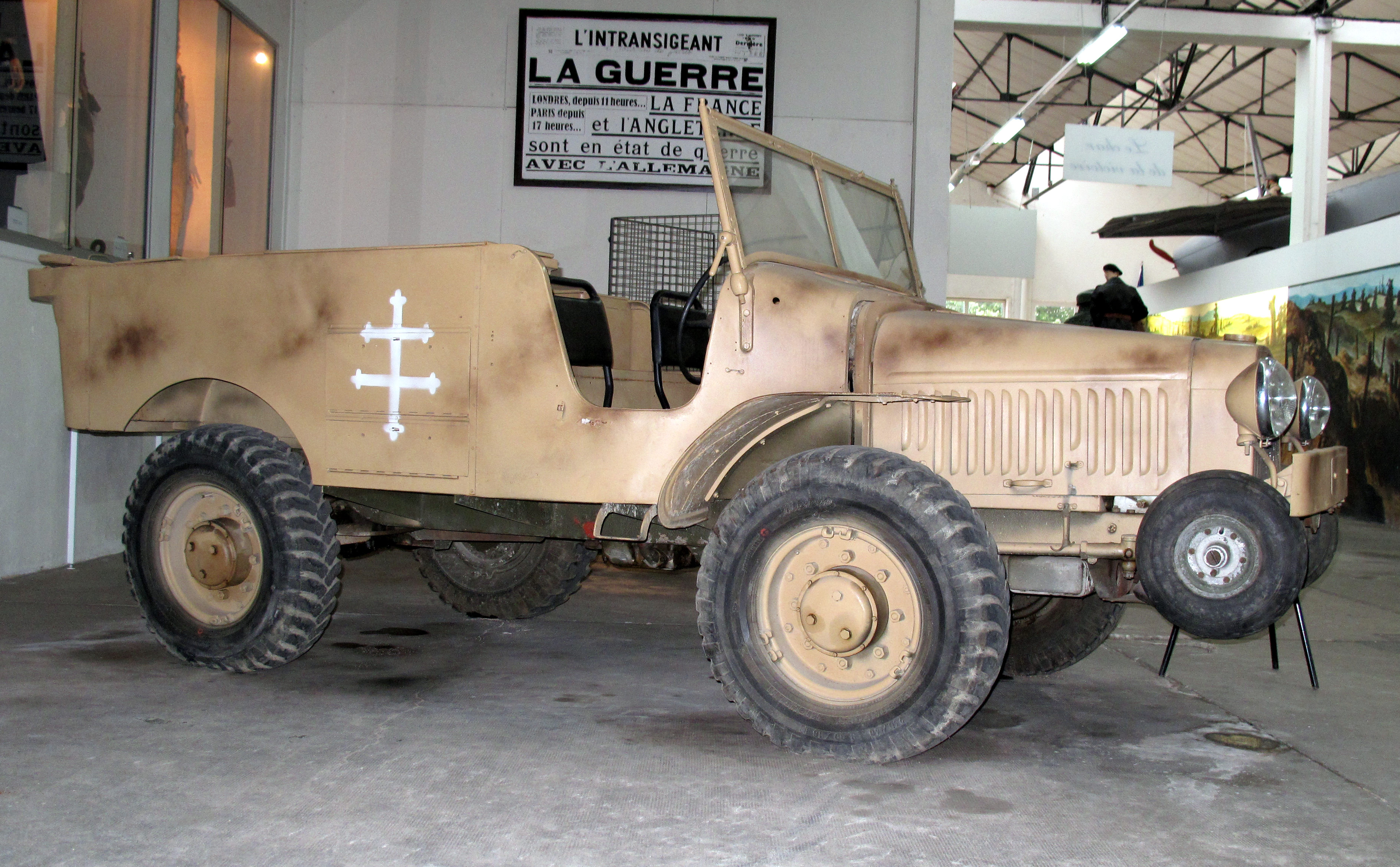 Laffly V15 T. On display at Saumur Général Estienne museum.